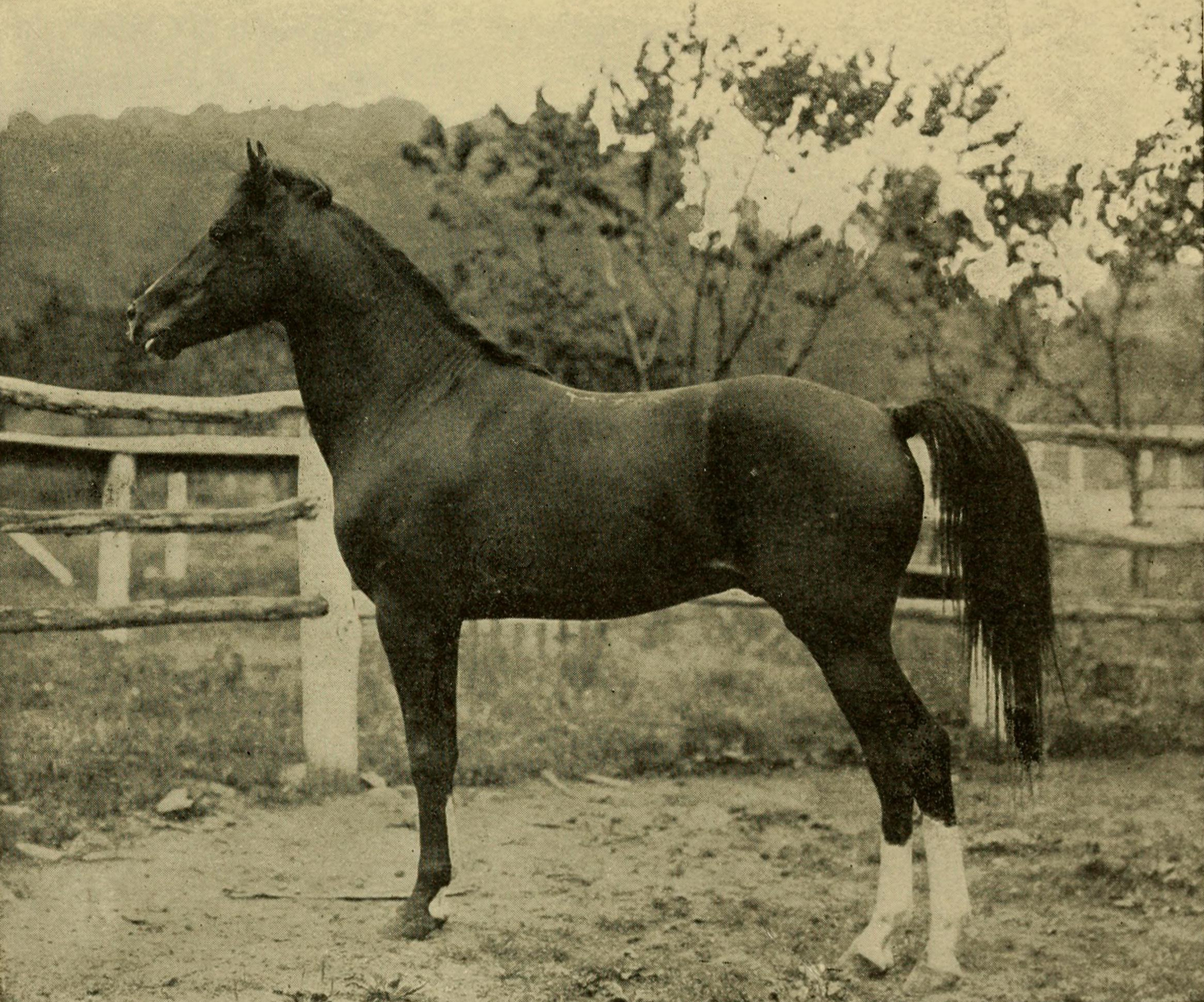 My quest of the Arab horse / by Homer Davenport.